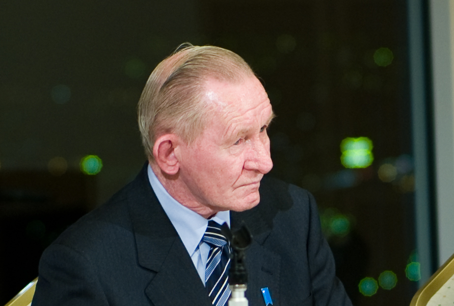 Charles Robert Jenkins